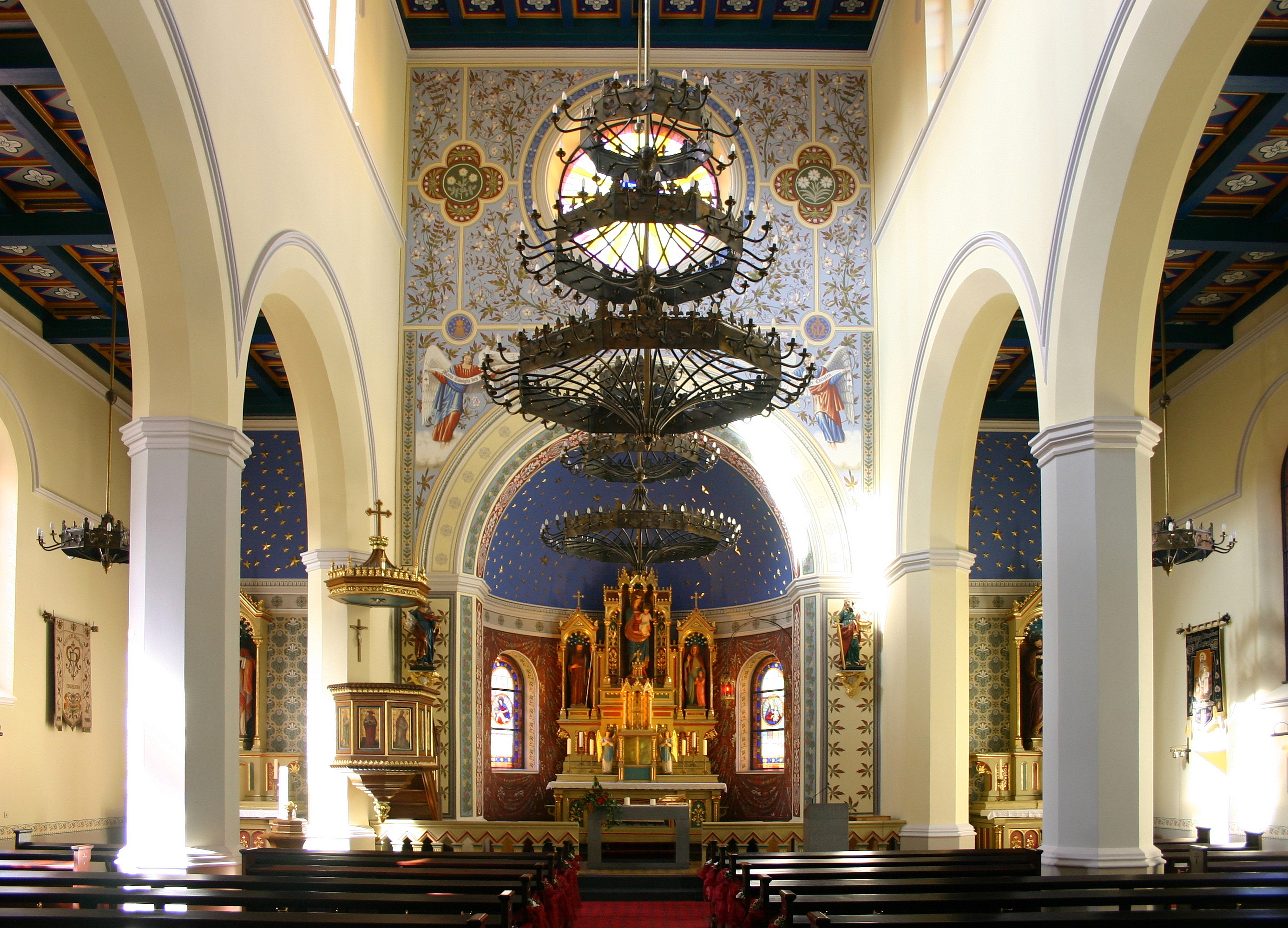 Inside view of "St. Marien am Behnitz" in Berlin-Spandau